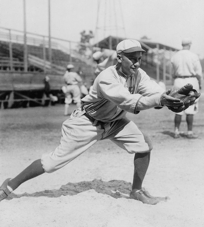 [Derrill Burnham "Del" Pratt, St. Louis Browns baseball player, wearing uniform, standing in position to receive thrown baseball]